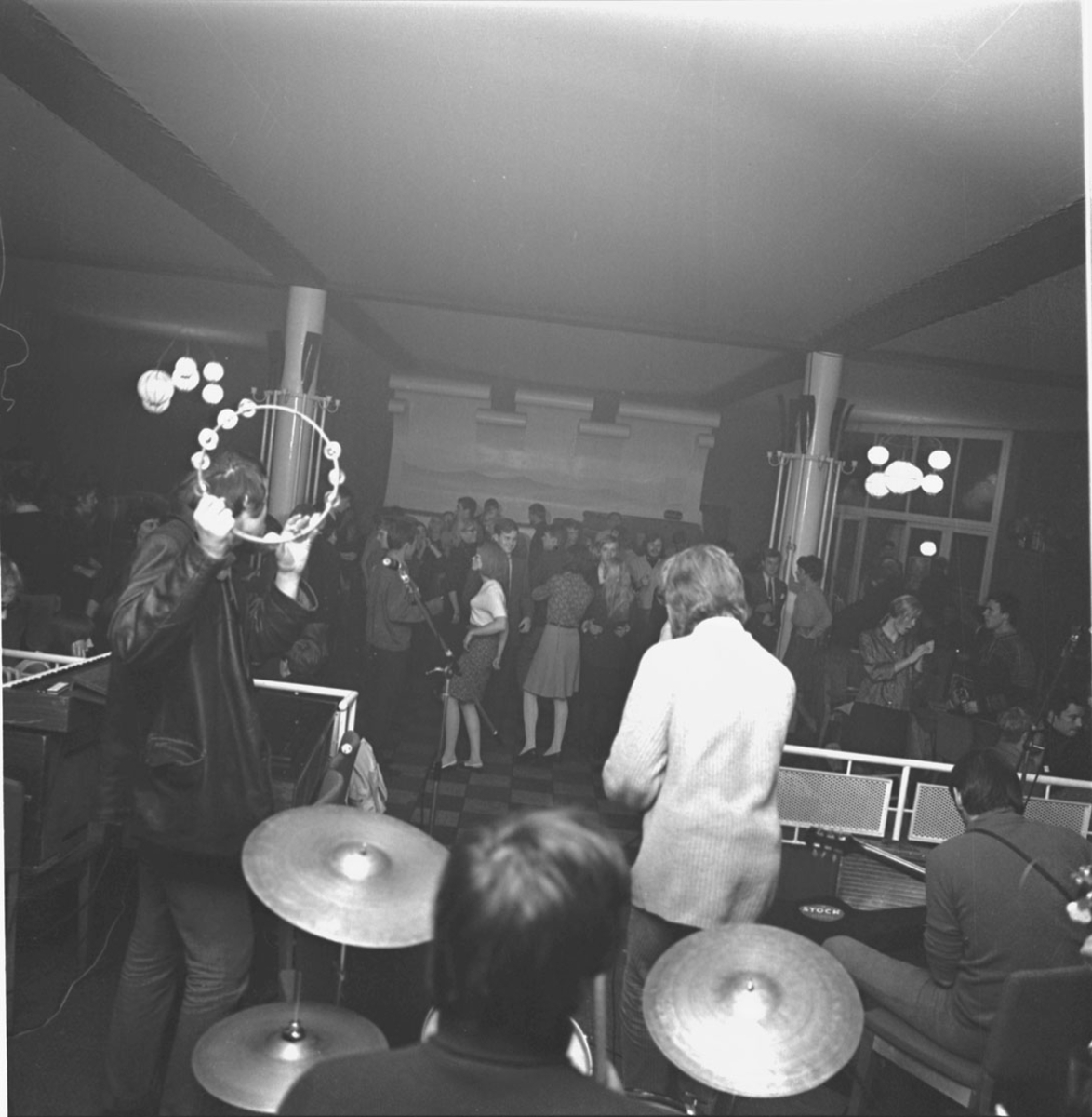 Public Enemies was a leading Norwegian rhythm and blues band from Oslo, known for its performances at Club 7 and later work with Karin Krog. They released a notable version of Sunny and Watermelon Man with Karin Krog. The group toured Northern Europe, sharing stages with among others Steve Winwood from Traffic.